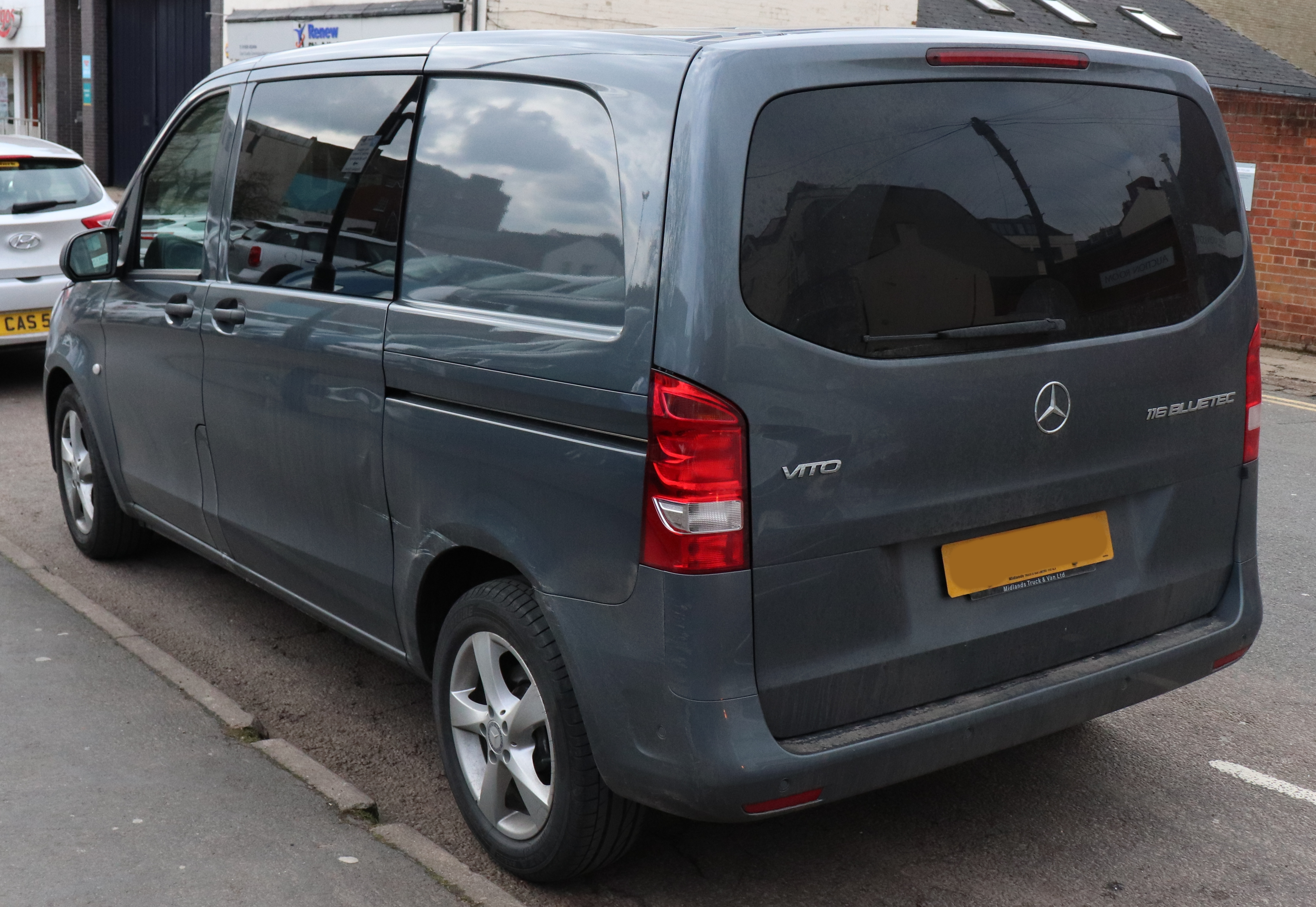 2015 Mercedes-Benz Vito 116 Bluetec 2.1 Rear Taken in Leamington Spa